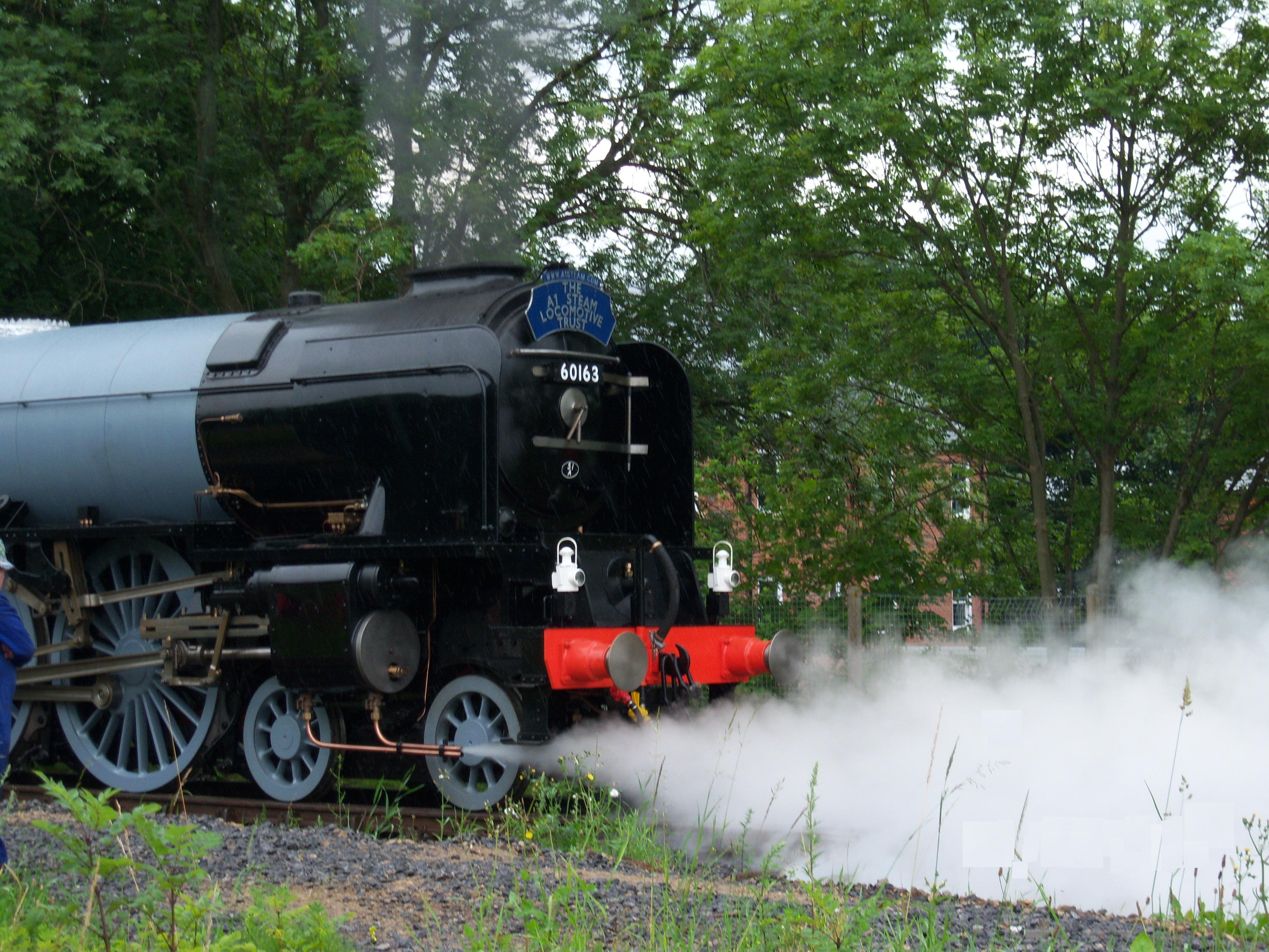 60163 Tornado in steam